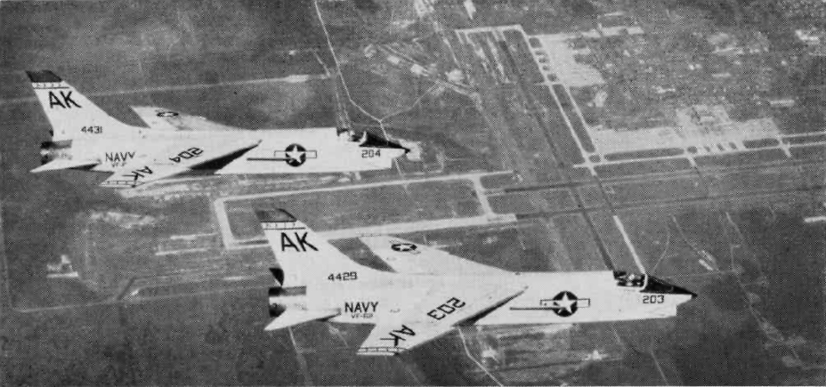 Two U.S. Navy F8U-1 Crusader fighters (BuNo 144429, 144431) from Fighter Squadron VF-62 Boomerangs, Carrier Air Group 10 (CVG-10), in flight over Naval Air Station Cecil Field, Florida (USA).